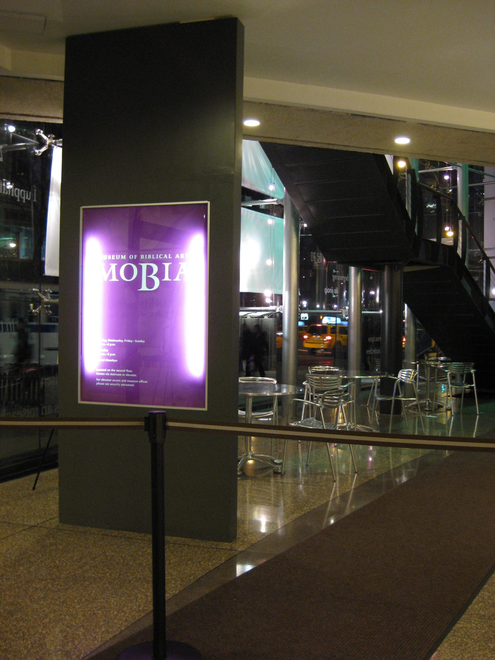 This photo is of Wikipedia Takes Manhattan location code 14, Museum of Biblical Art.